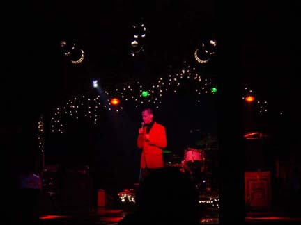 Director John Waters on stage at Dante's, Christmas 2005.